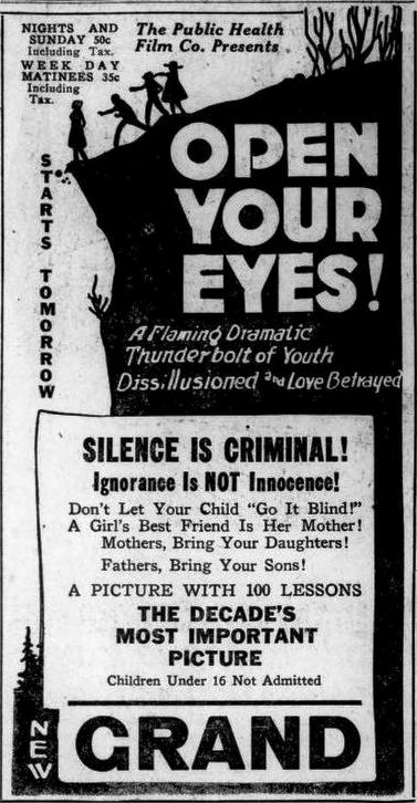 Newspaper advertisement for the American film Open Your Eyes (1919), a melodrama recounting the dangers and horrors of venereal disease, on page 9 of the January 28, 1922 Duluth Herald.